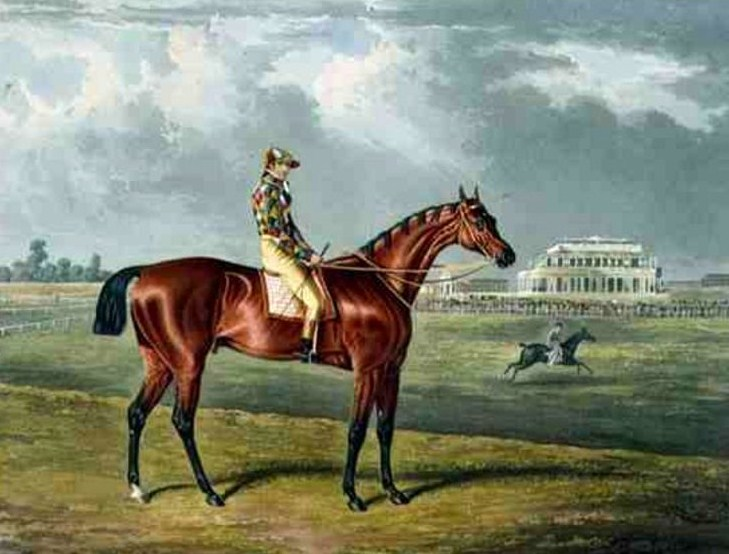 Painting of the racehorse Memnon by John Frederick Herring Snr (1795-1865). Artist dead for 147 years.